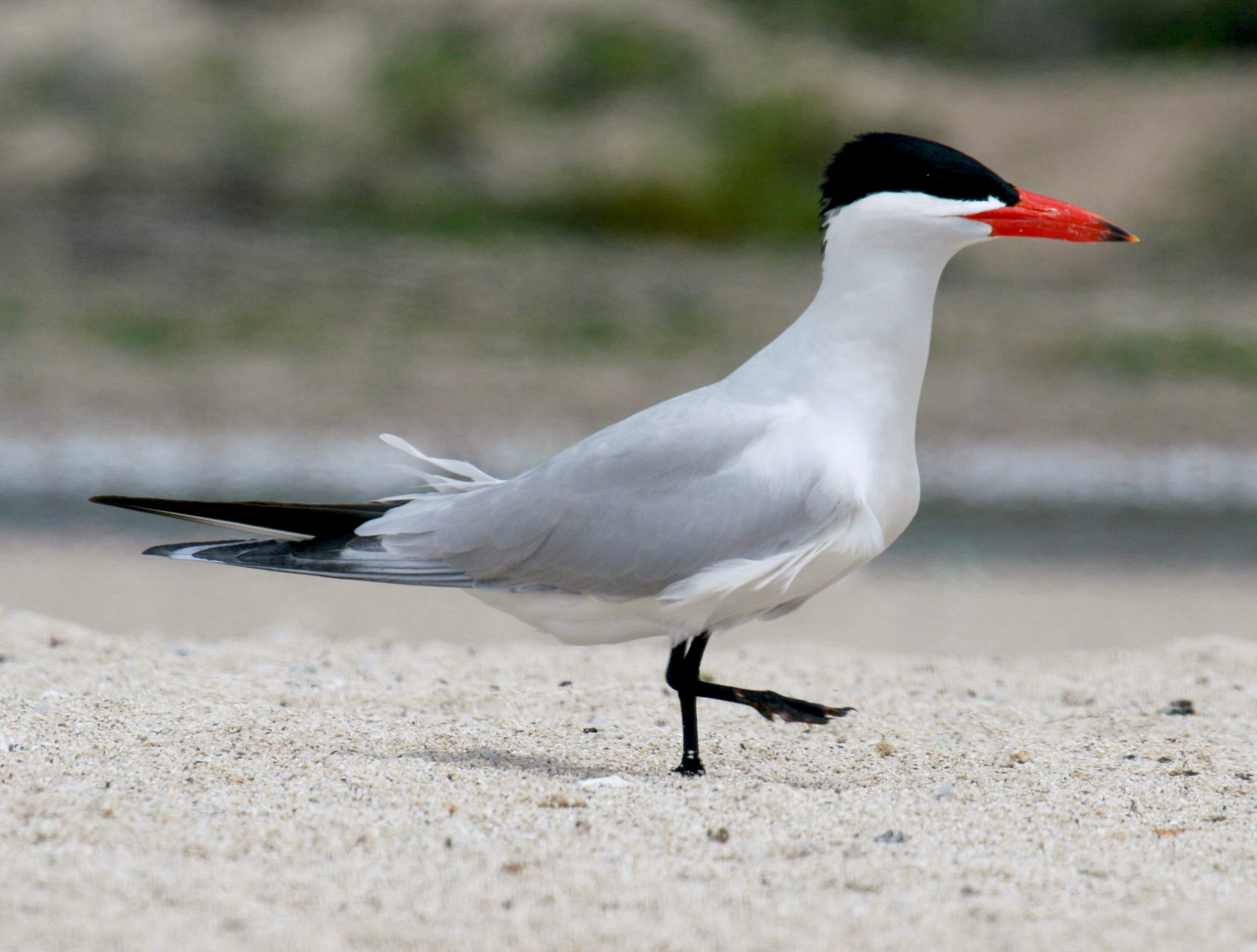 Caspian Tern (Hydroprogne caspia) at Half Moon Bay, California